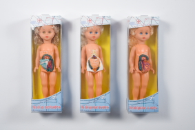 "The doll you love to undress" - work by Zbigniew Libera, from the permanent collection of Zachęta National Gallery of Art (Warsaw, Poland)